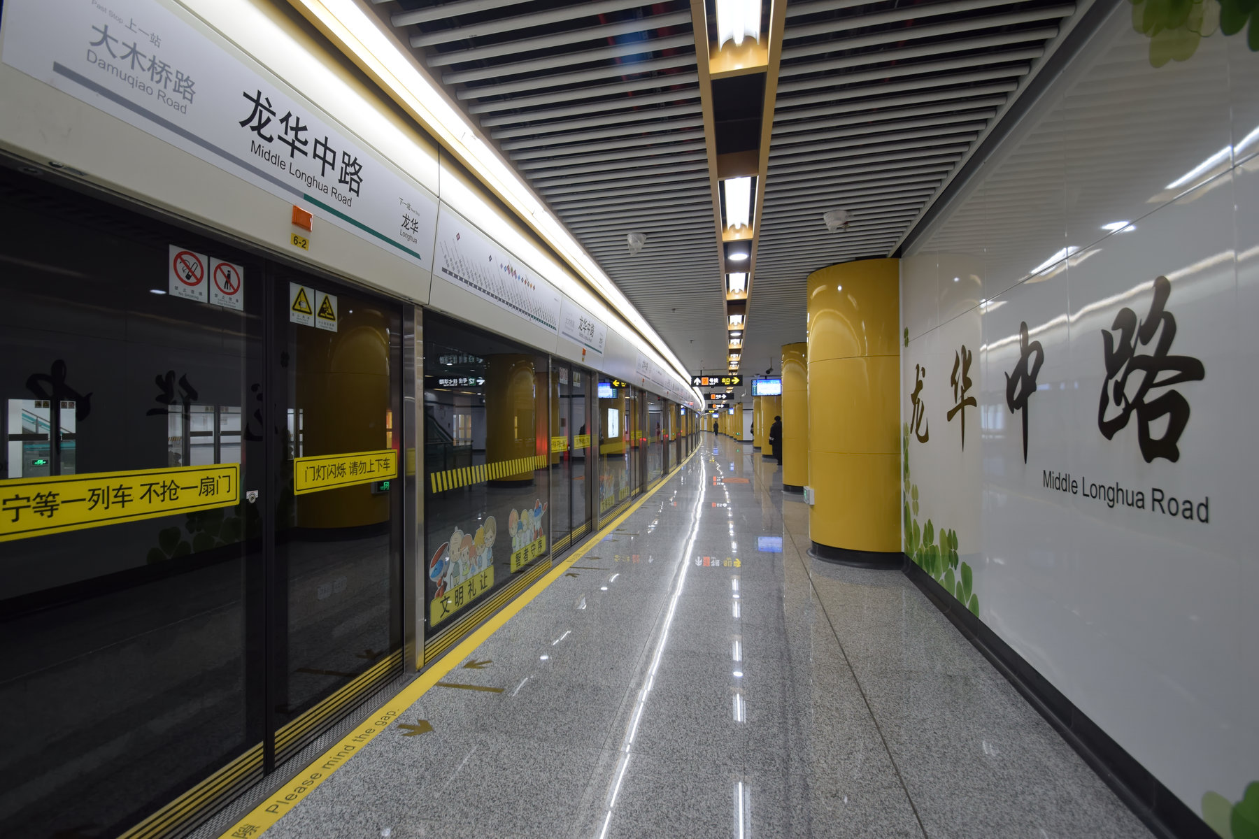 Line 12 Platform (bound for Qixin Road Station) of Middle Longhua Road Station, Shanghai Metro